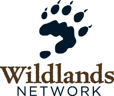 Wildlands Network's logo